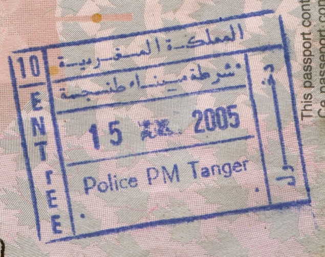 Passport entry stamp from Tangier port, Morocco